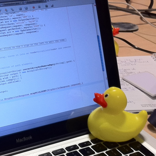 A rubber duck assisting with debugging some Java code in NetBeans.